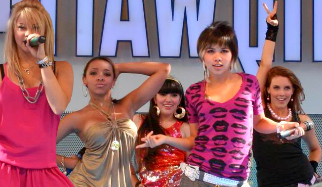 American girl group The Stunners performing live at Celebrity Basketball Game, in 2009.